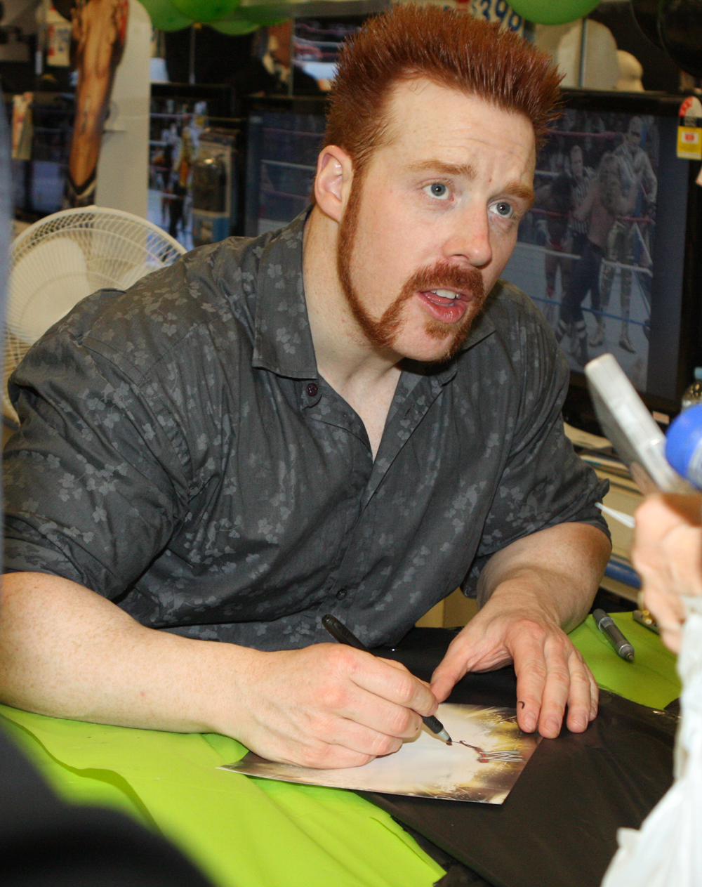 WWE Superstar Sheamus Appears At Big W Bankstown in Sydney... WWE Superstar Sheamus made an in-store appearance at Big W in Bankstown today, as 'The Great White' made his down under Australian promotional trip. Hundreds of fans turned out to say G'day to WWE Superstar fella Sheamus. Some WWE prizes were given away to a lucky few including DVDs, Action Figures and Video Games, and Sheamus met and signed autographs for hundreds of fans. You may have heard that he won this year's Royal Rumble and is a hot favourite to defeat Daniel Bryan for the World Heavyweight Championship at WrestleMania 28. Good on you fella for taking the long plane trip down under to Australia and may you have the luck of the Irish at WrestleMania, and for the rest of your career. WrestleMania 28 Predictions... Our tips John Cena over The Rock Sheamus over Bryan Danielson The Undertaker over Triple H Chris Jericho over CM Punk The Big Show over Cody Rhodes Randy Orton over Kane Team Teddy VS Team Johnny Media Man's pro wrestling tipsers also advises to expect one or two surprises, including more action in the ring than expected with Shaun Michaels aka "The Heartbreak Kid" (ref for The Undertaker VS Triple H) and "Stone Cold" Steve Austin, who likely won't be able to contain himself at the biggest event on the pro wrestling calendar. It would be pretty cool to see Dusty Rhodes and Dustin Rhodes (aka Goldust) get involved in Cody's match, but that's on the wish list. We would like to see "Rowdy" Roddy Piper and Jimmy "Superfly" Snuka also get involved, but there's not even a rumour about that. Keep checking Street Corner, Wrestling News Media and the official WWE network for more on these developing news stories and more. Websites WWE Big W Wrestling News Media WWE official website - Sheamus Eva Rinaldi Photography website Eva Rinaldi Photography Flickr